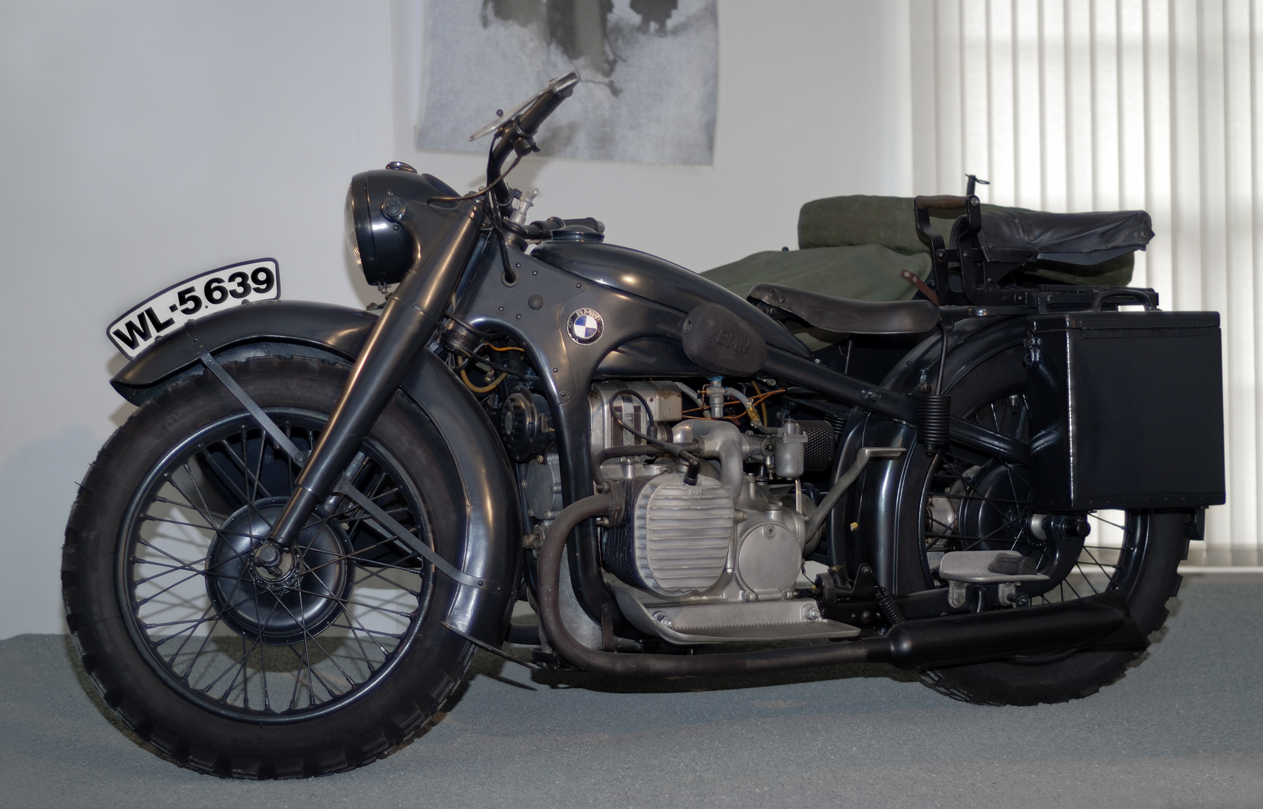 This image shows a BMW R 12. The image was taken at a museum of the Plassenburg in Kulmbach, Germany.